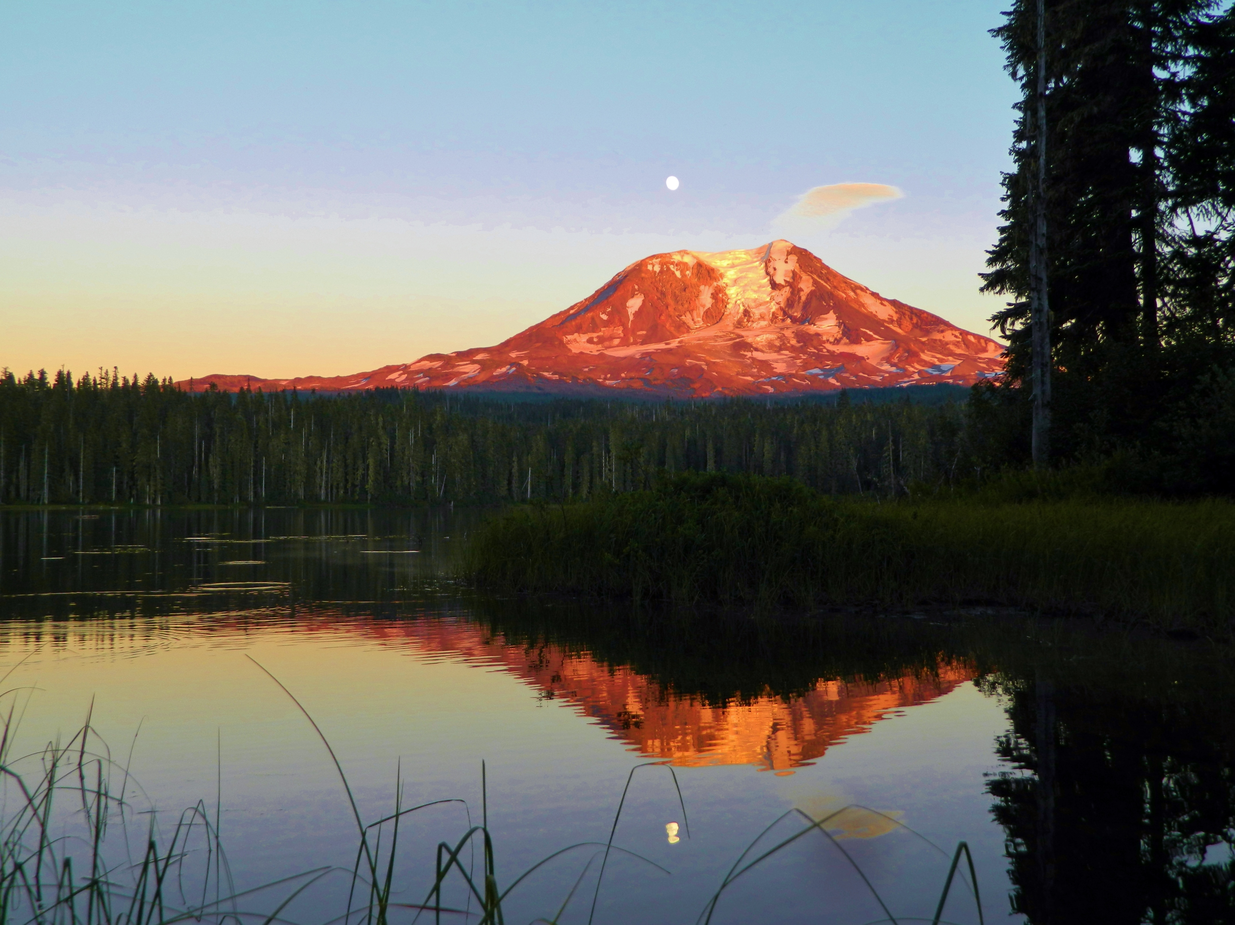 High Lakes Area, Gifford Pinchot National Forest, WA